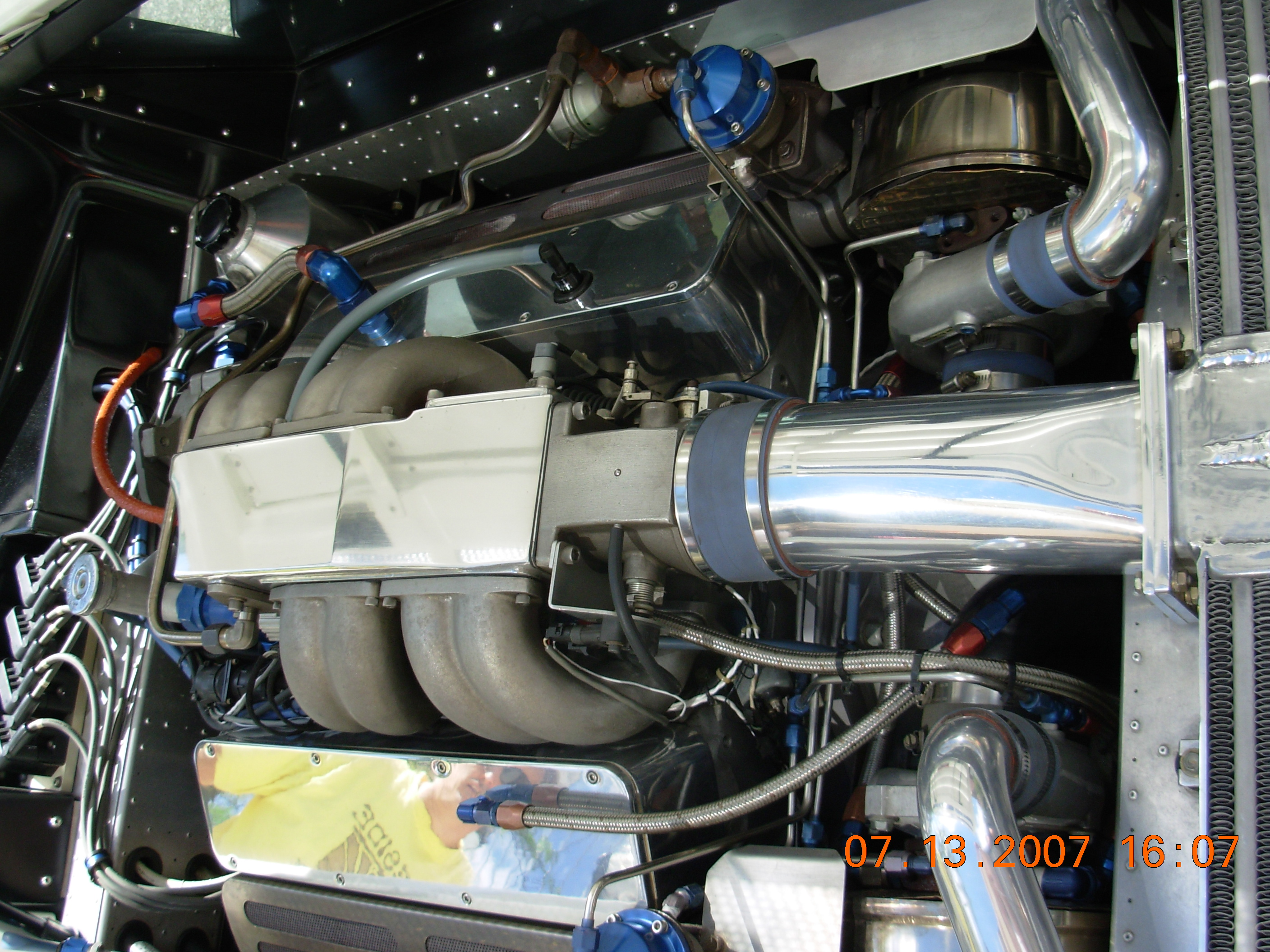 Vector W8 Twin Turbo engine